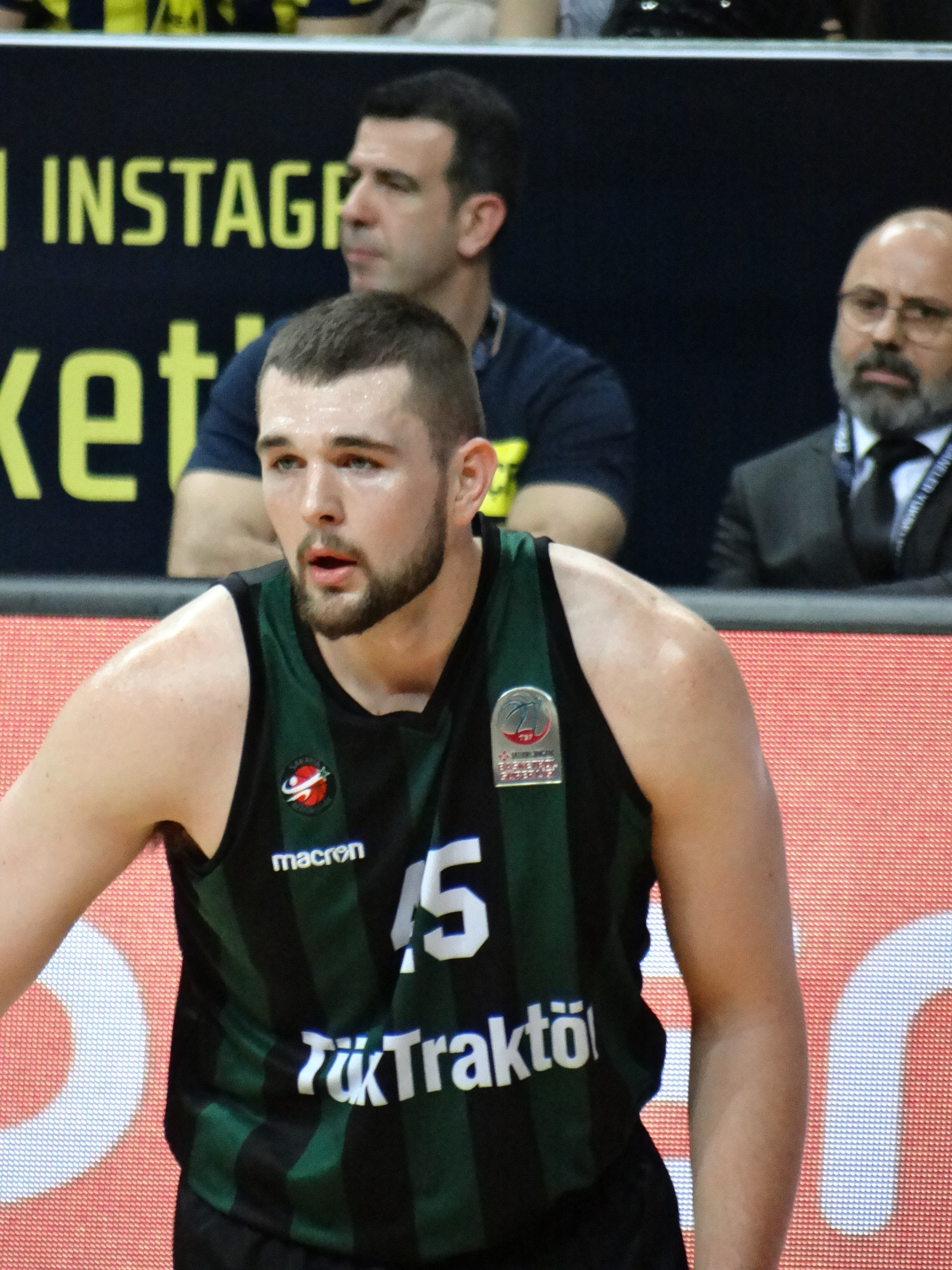 Nathan Boothe 45 Sakarya Büyükşehir Belediyespor 20180107